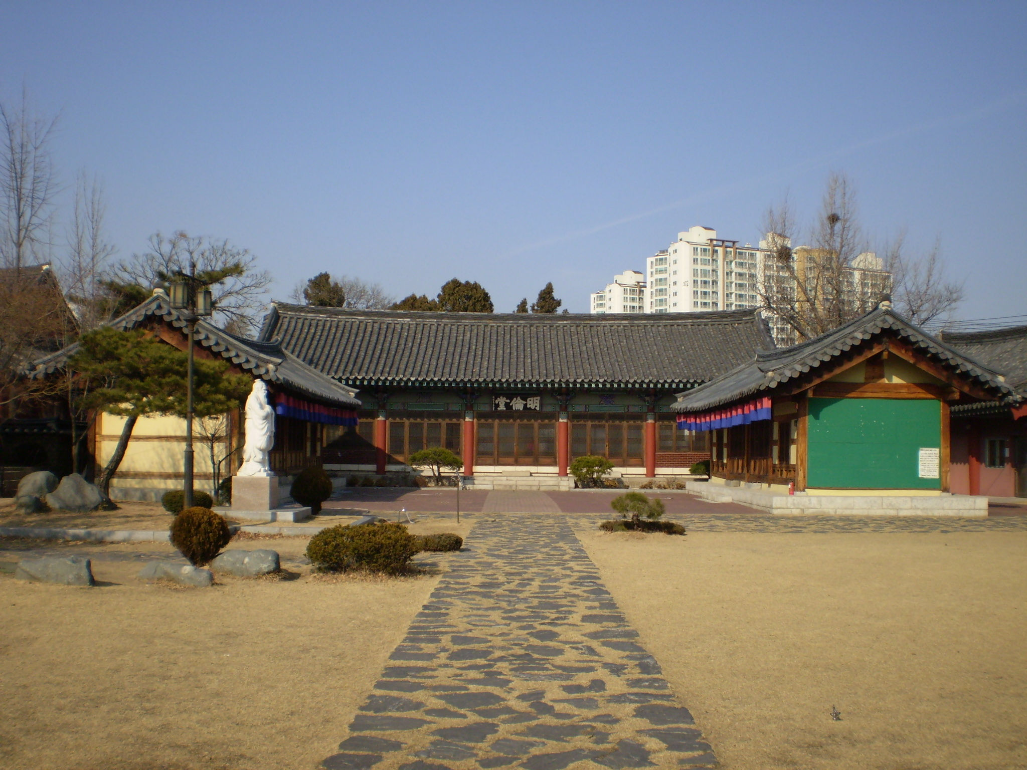 View from Naksukjae looking north toward the Myeongnyundang lecture hall at the Daegu hyanggyo in Daegu, South Korea. The statue of Confucius is in front of the Seojae dormitory.